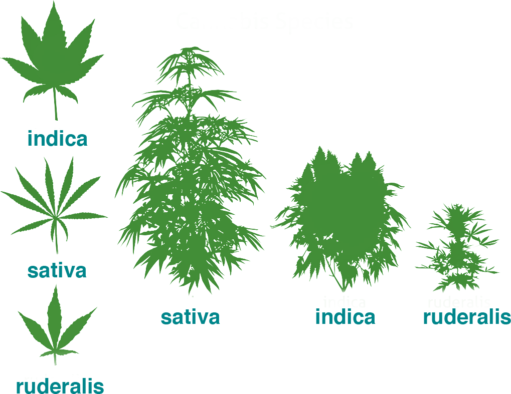 The picture above illustrates the three cultivars of cannabis as it has evolved over centuries. The cultivar, Cannabis ruderalis, still grows wild today and is thought to be how much of the breeding between the different cultivars began, expanding from the indigenous cultivars to the cannabis we have today. This breeding started as soon as humans began acquiring it long ago, as described in above sections.